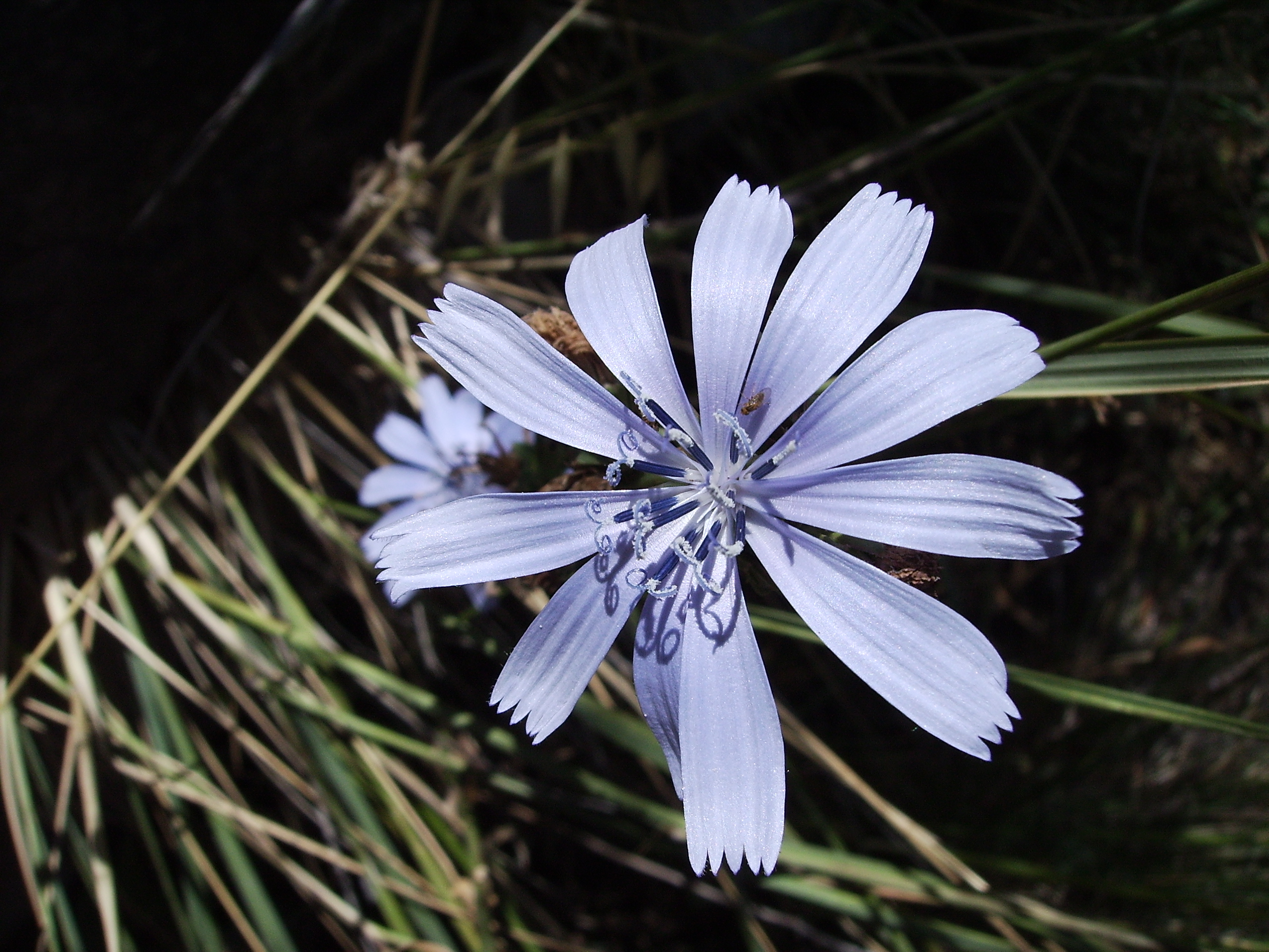 Image:Cichorium_intybus06_002.jpg My own work, Castelltallat